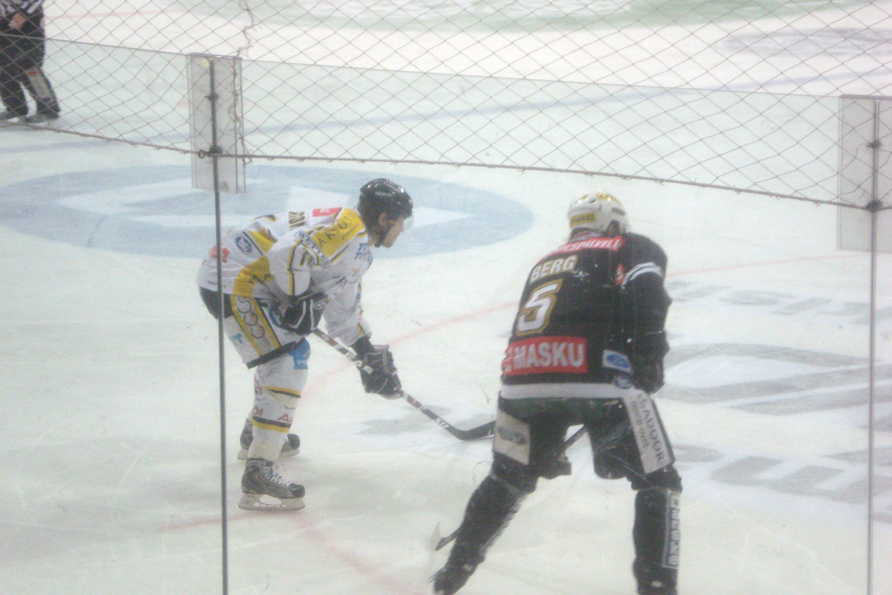 Aki Berg (black) and Teemu Normio (white)